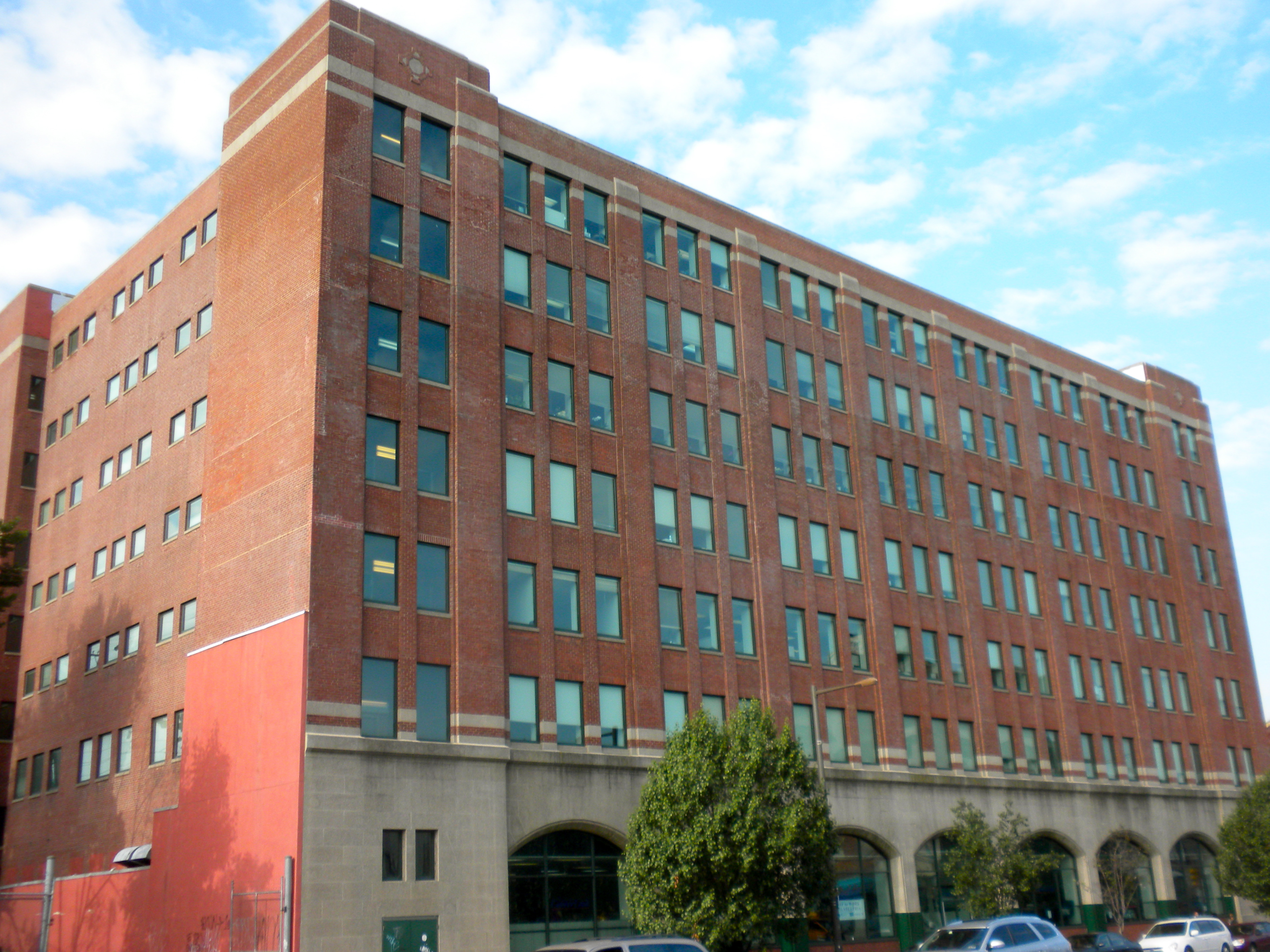 Philadelphia Wholesales Drug Company Building on the NRHP since September 5, 1990. At 513–525 North Tenth St., Philadelphia, in the Callowhill neighborhood